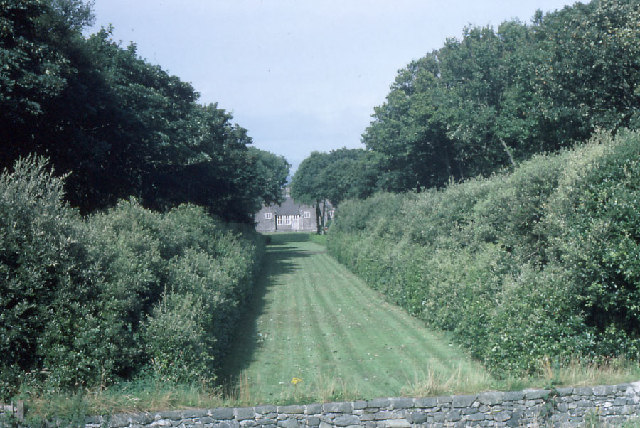 Lambay Castle: one of the garden vistas. Looking towards the Castle; in one of Edwin Lutyens' best gardens.